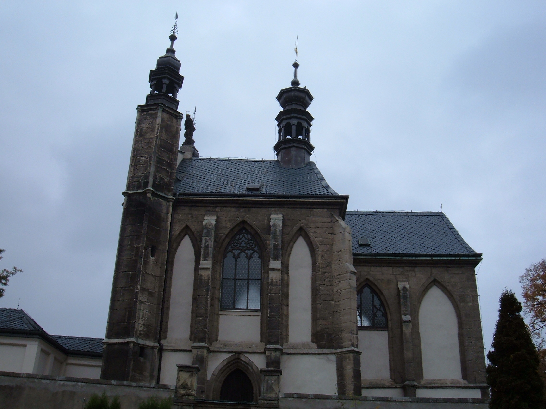 The Sedlec Ossuary in Kutná Hora, Czech Republic.